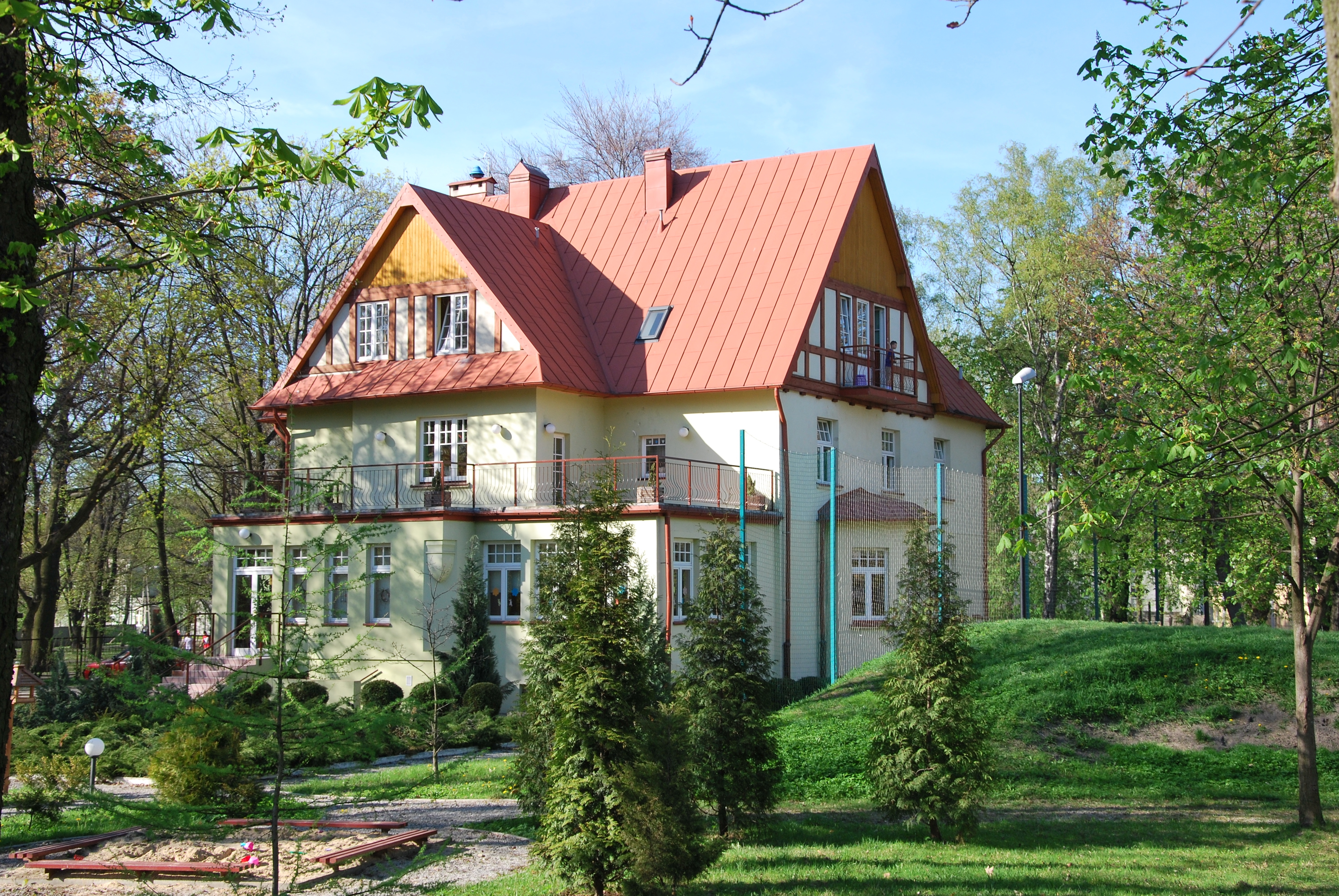 Orphanage no 9 & Multigeneration House, 15a Bednarska Street Łódź